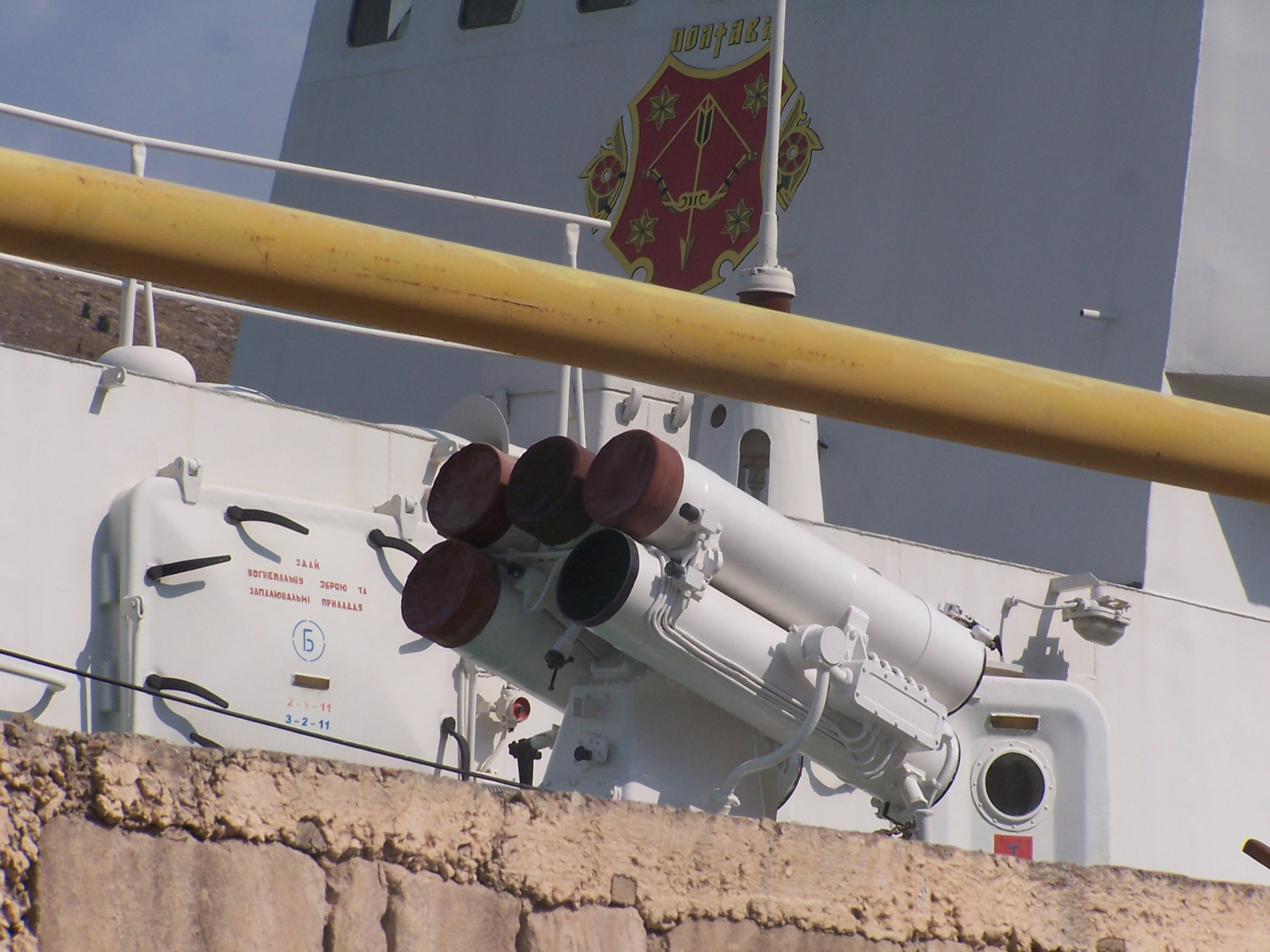 Soviet-designed RBU-1200 depth charge launcher on board the Ukrainian Sea Guard "Poltava" corvette (BG-51, Pauk class).